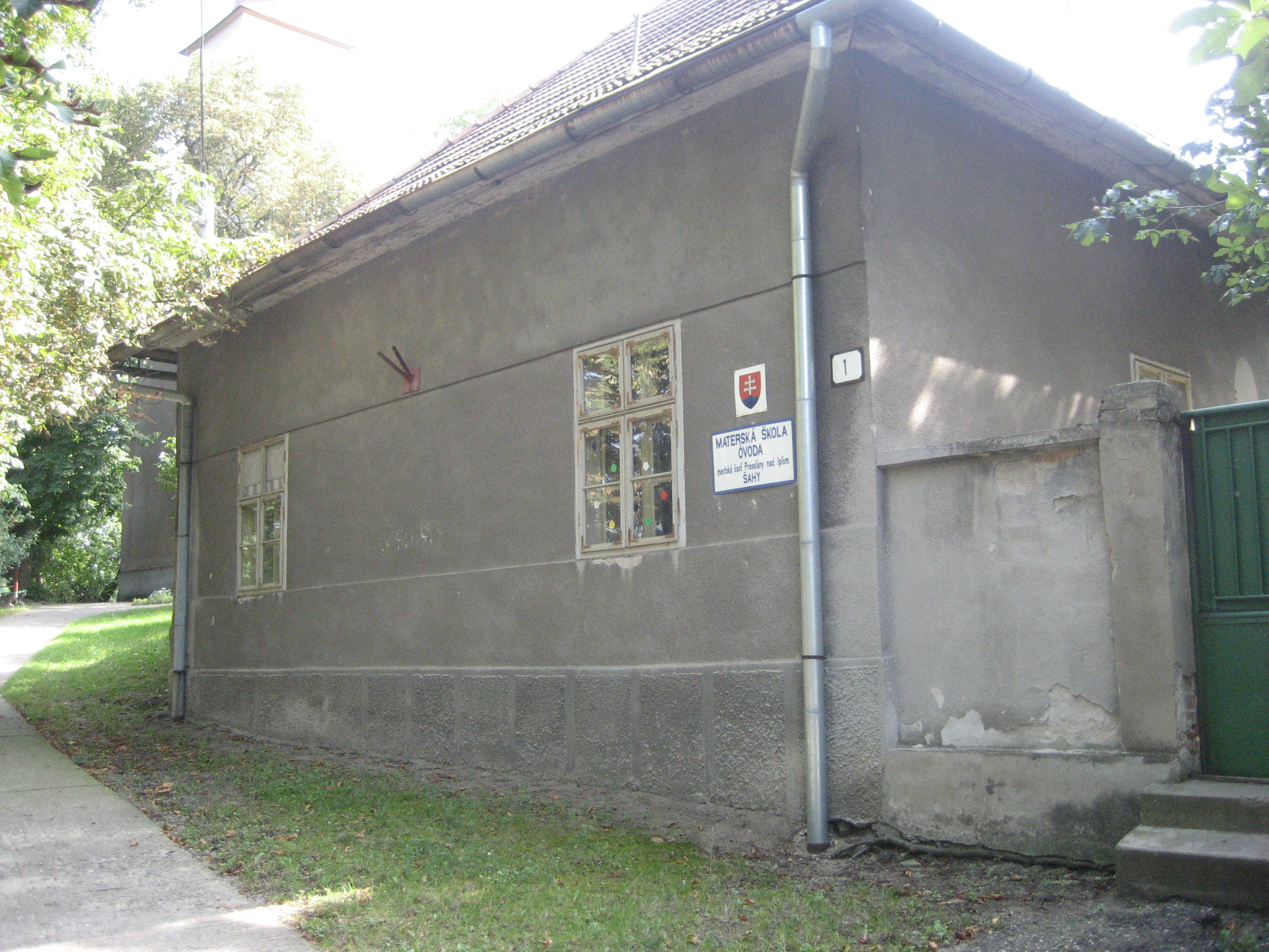 Preselany n Iplom/Pereszleny, author: mt7, Ixus 60